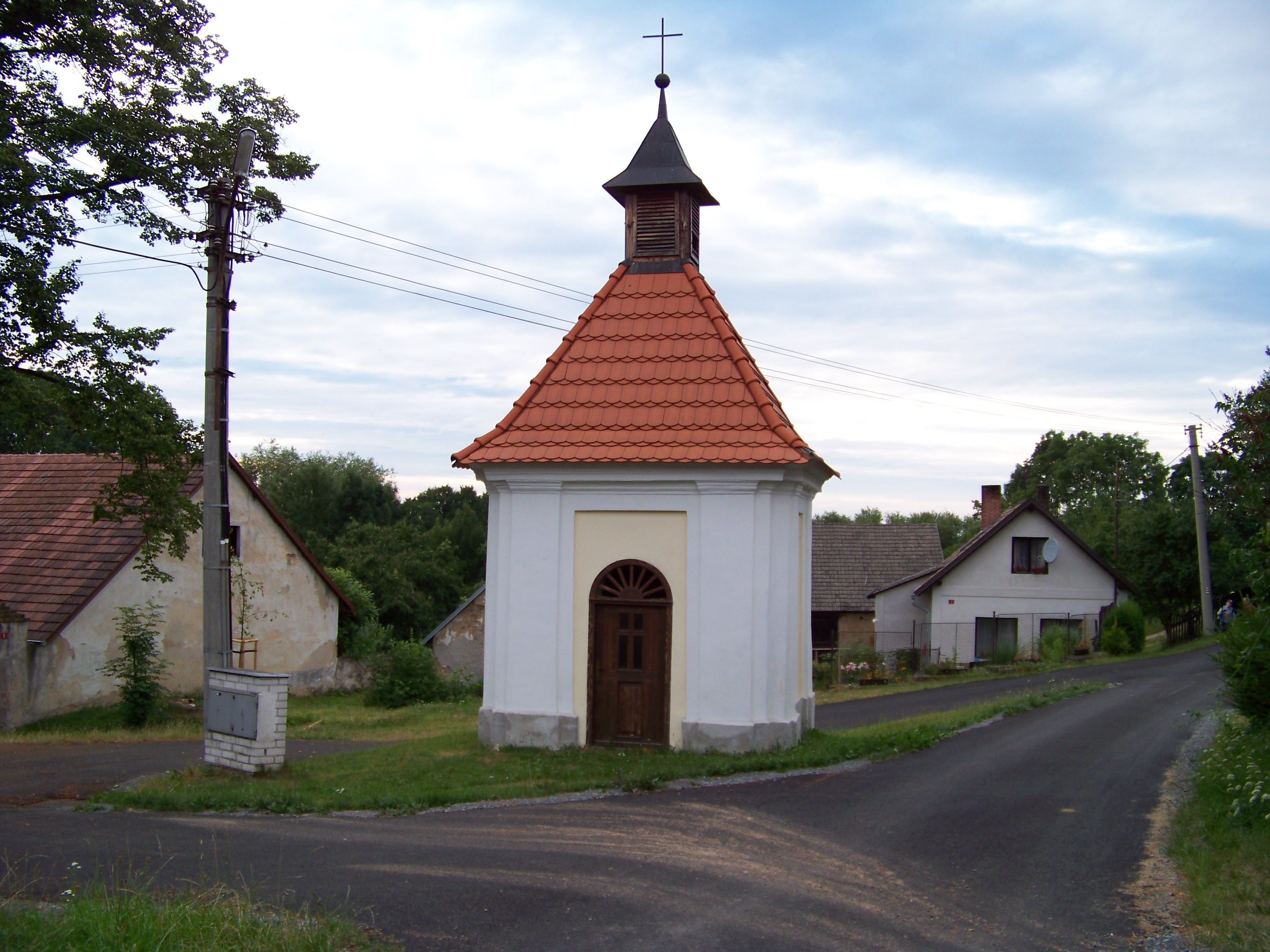 Sedlec-Prčice-Matějov, Příbram District, Central Bohemian Region, the Czech Republic. Horní Matějov, a chapel. - Google Maps - Google Earth